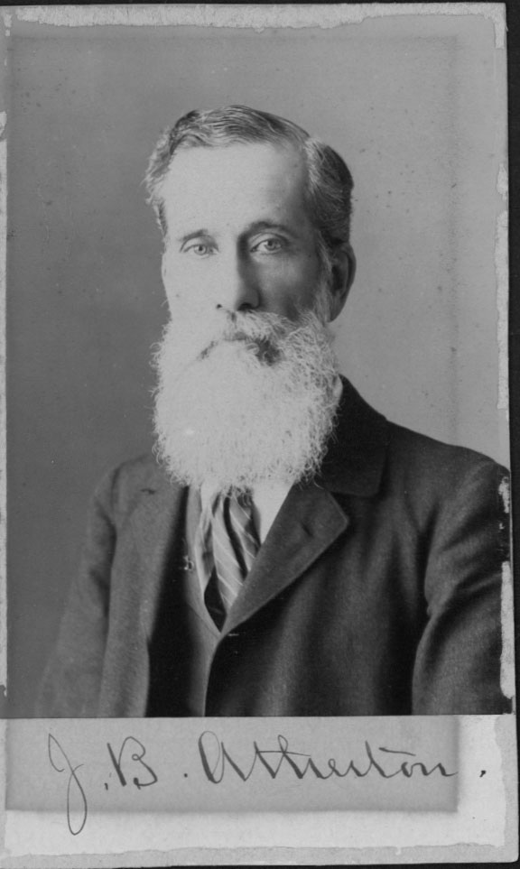 Joseph Ballard Atherton, founder of the Honolulu Star-Bulletin in the 1890s as the mouthpiece of the Provisional Government.